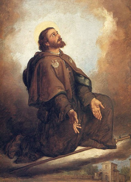 Painting of S. Amato Ronconi